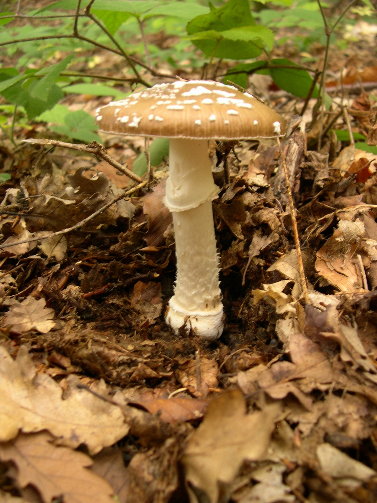 Amanita pantherina September 2005 - Piacenza's mountains - Italy by Archenzo